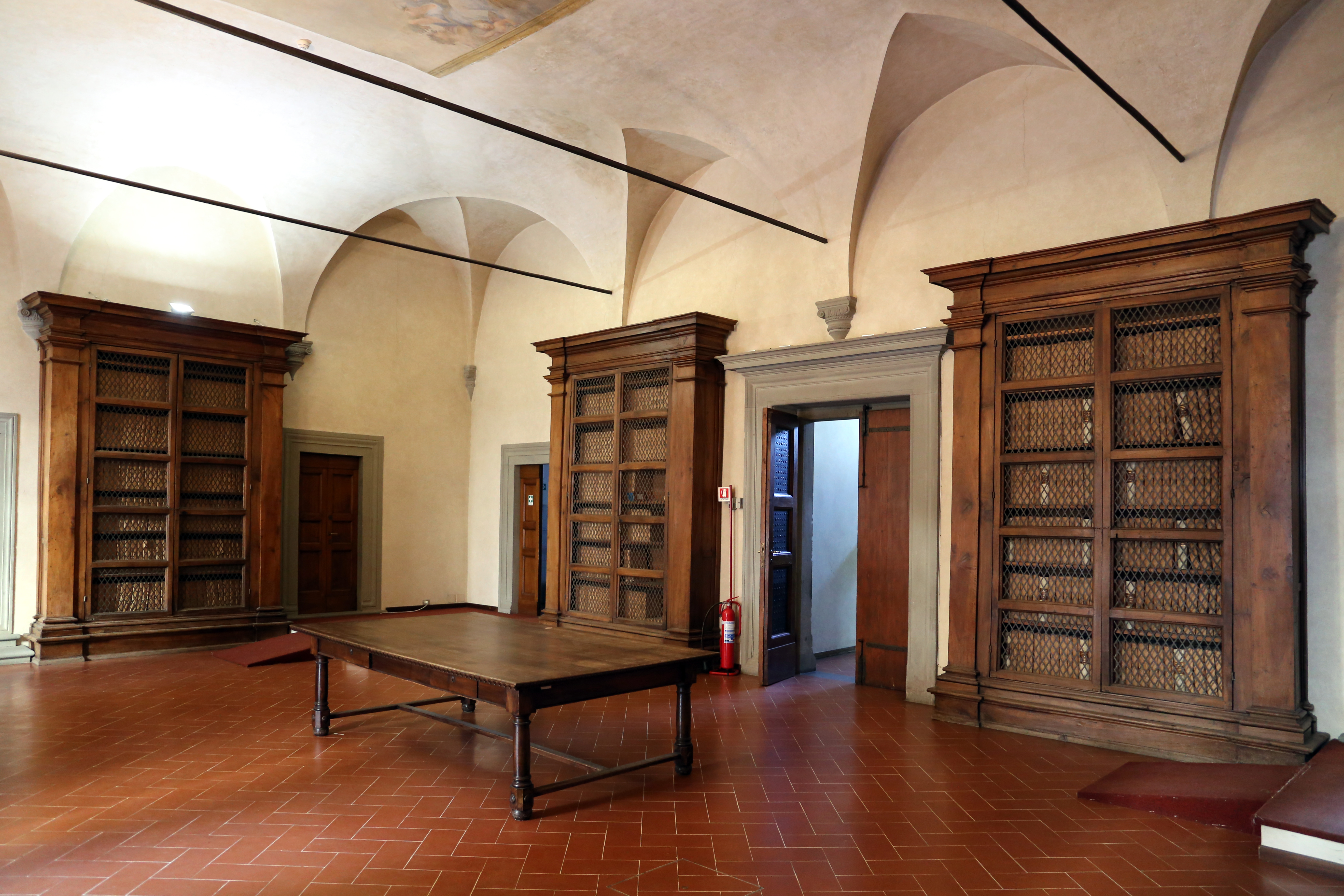 Villa di Castello